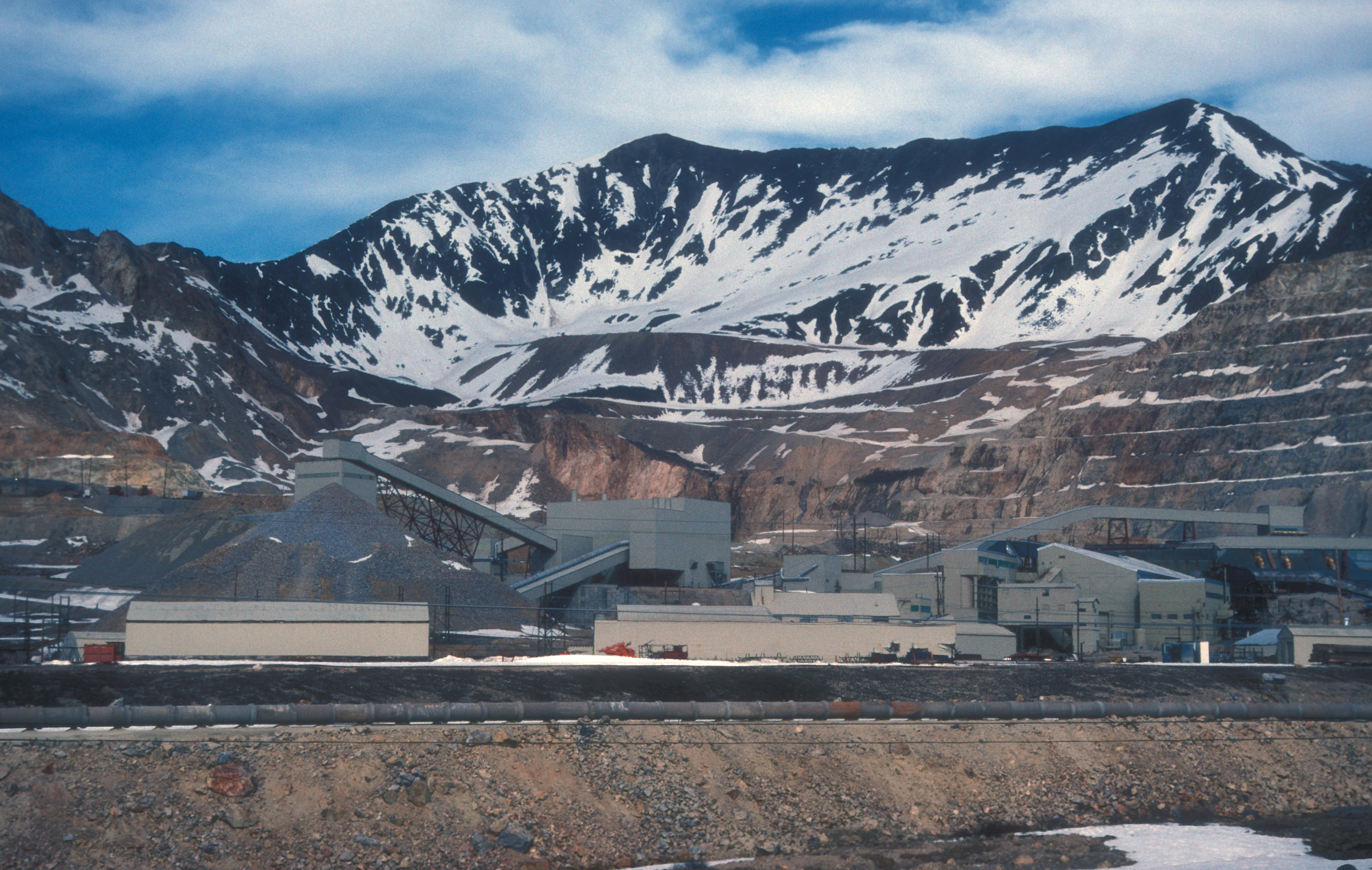 CLIMAX MOLYBDENUM MINE AT THE TOP OF FREMONT PASS; ; MUCH ORE HAS BEEN STOCKPILED; MILL CLOSED IN 1987 BUT HAS RE-OPENED IN 2012